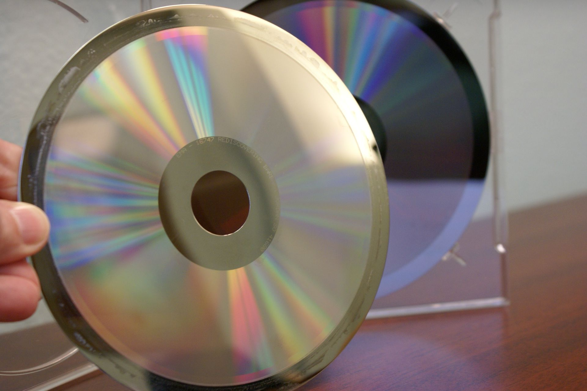 A metalized glass master used in Compact Disc manufacturing.